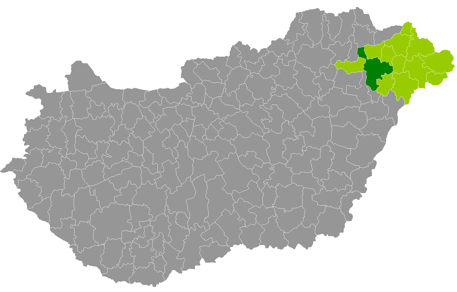 Location of Nyíregyháza District, Szabolcs-Szatmár-Bereg, Hungary